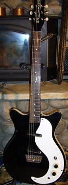 A 1959 Danelectro Shorthorn electric guitar.